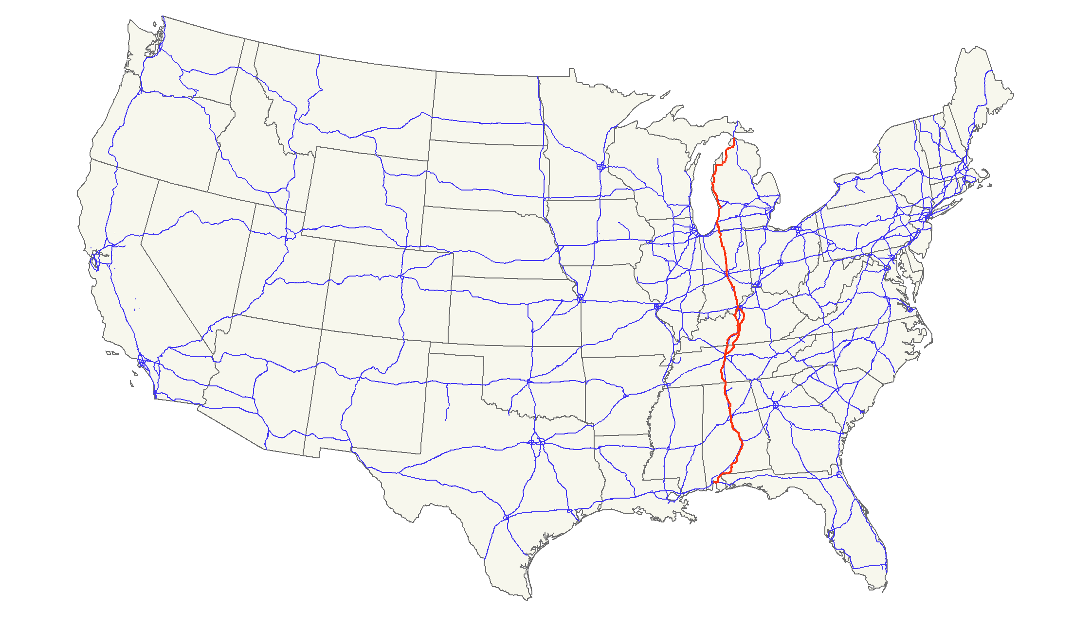 Map of U.S. Route 31